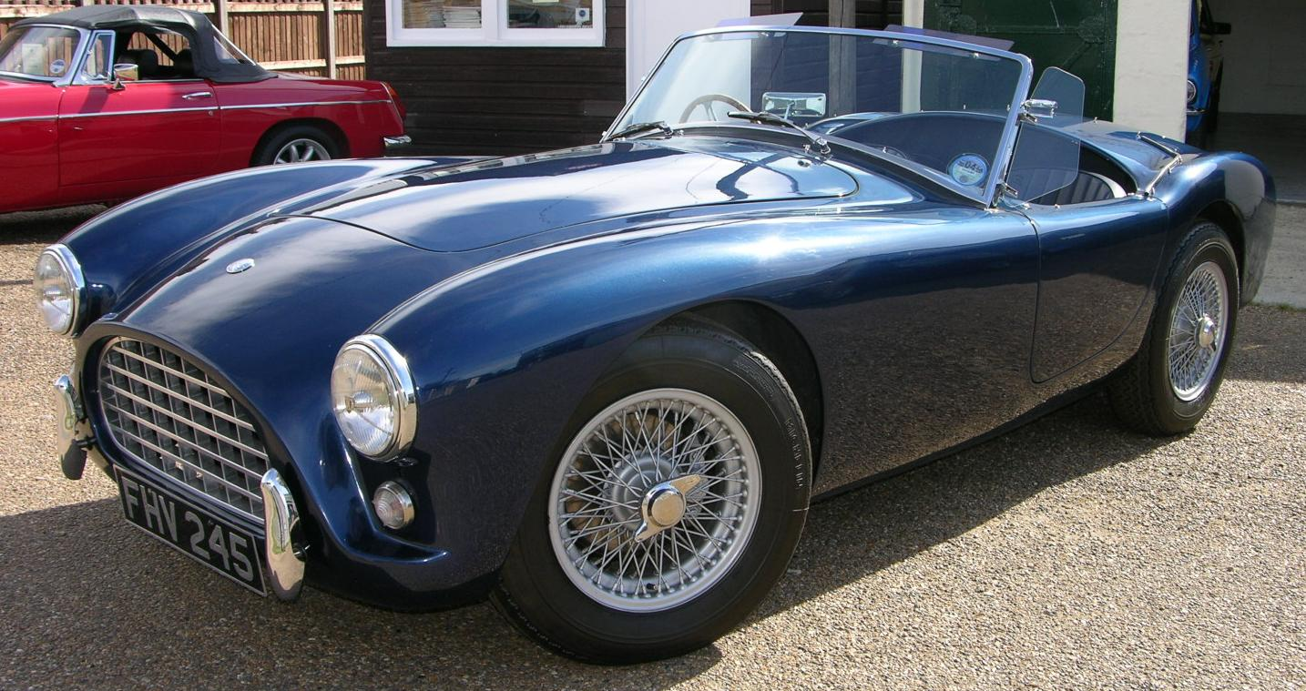 1968 Hawk AC Ace